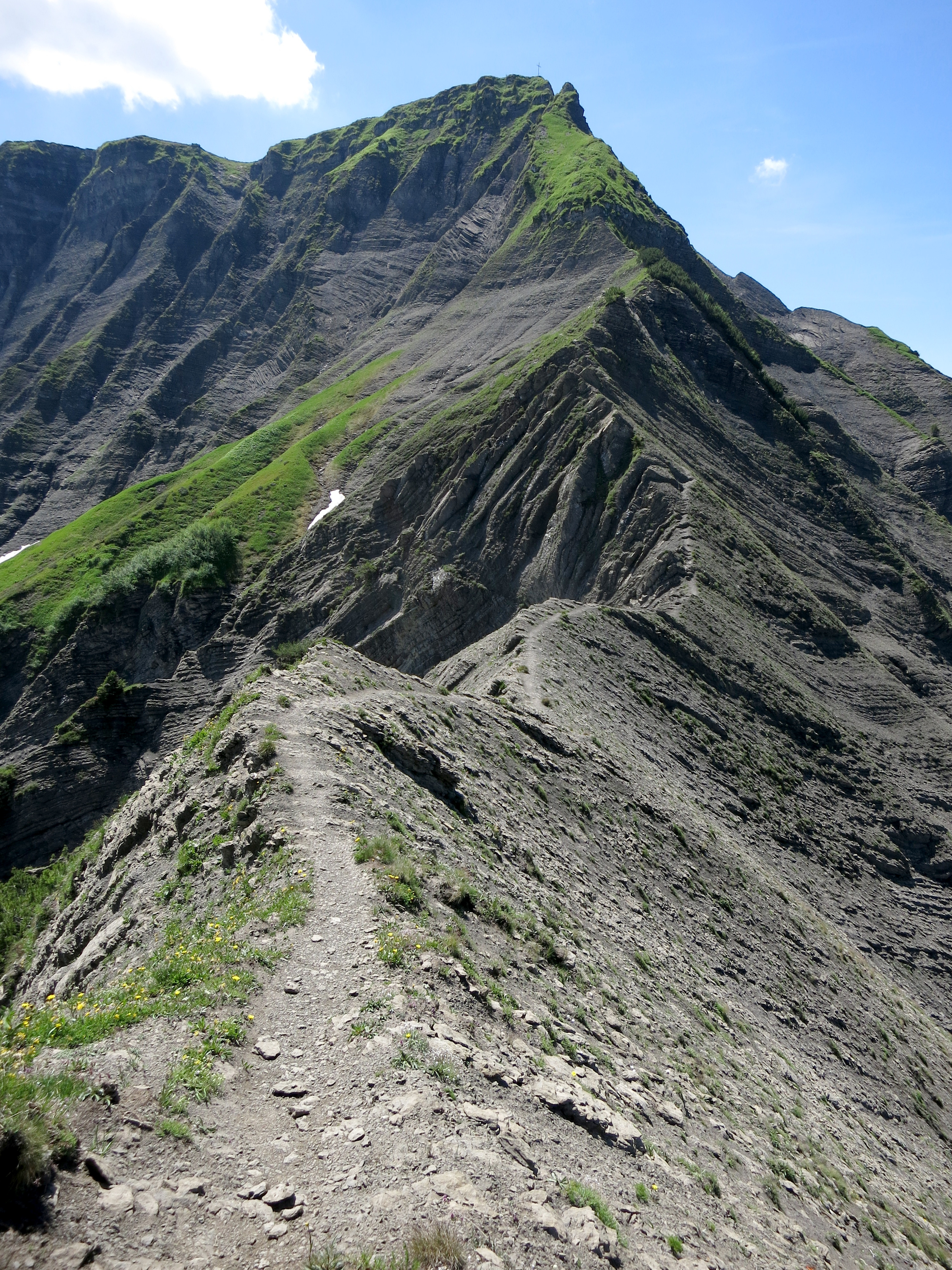 On the way to mountain Hoher Freschen, Austria